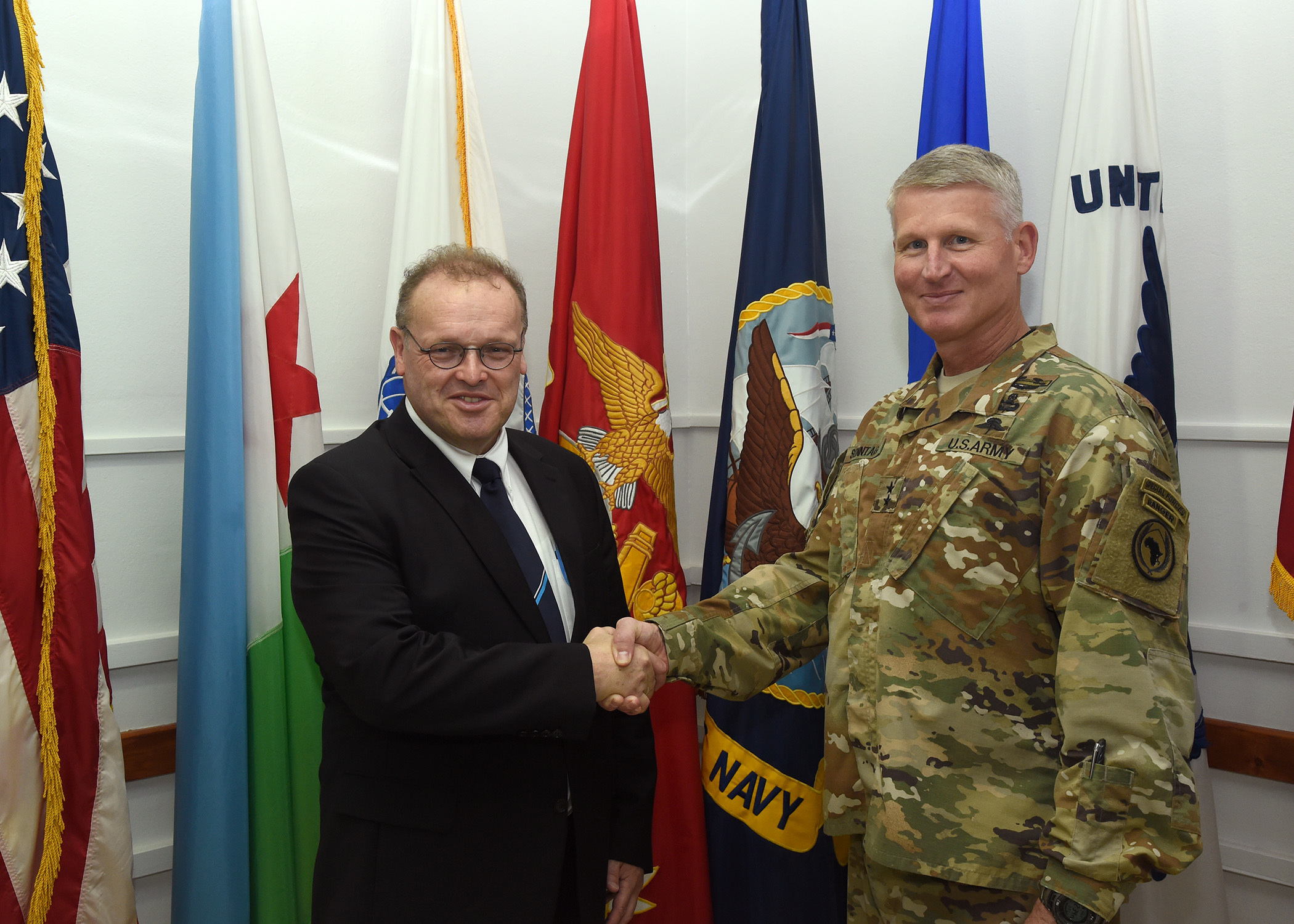 U.S. Army Maj. Gen. Kurt L. Sontag, commander of Combined Joint Task Force-Horn of Africa (CJTF-HOA), and Dr. Volker Berresheim, Ambassador, German Embassy to Djibouti, smile for a photo during a visit, March 31, 2017, at Camp Lemonnier, Djibouti. The meeting inculded discussions the cooperation of CJTF-HOA and the Germans within the Horn of Africa, coalition partnership building, and shared interests. (U.S. Air National Guard photo by Staff Sgt. Penny Snoozy) Unit: Combined Joint Task Force - Horn of Africa DVIDS Tags: Djibouti; German; AFRICOM; Combined Joint Task Force-Horn of Africa; CJTF-HOA; German Ambassador; German Ambassador to Djibouti